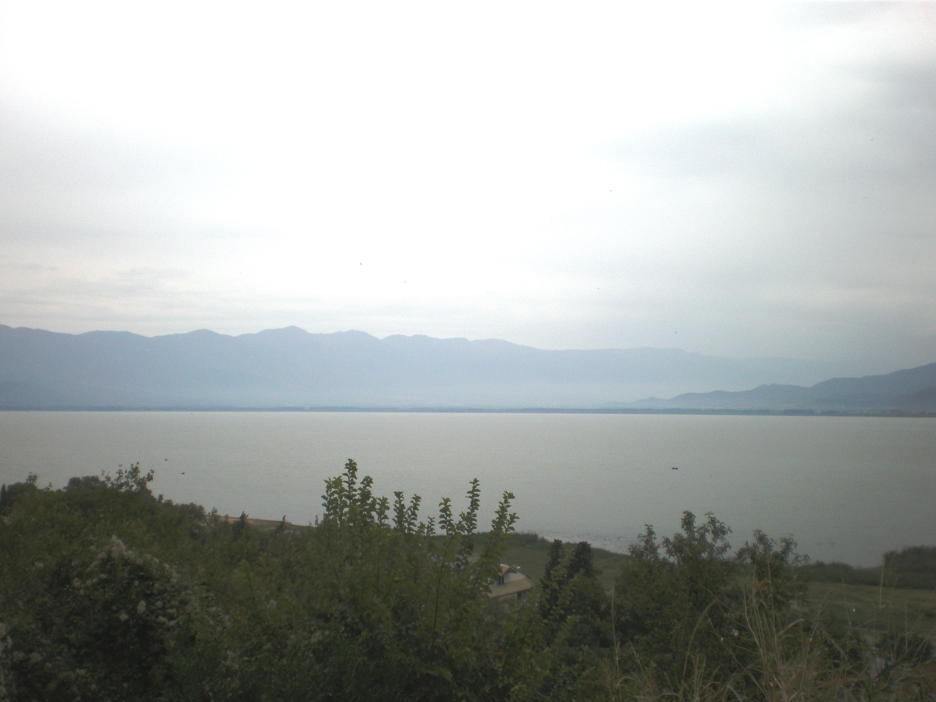 Dojran Lake, Macedonia